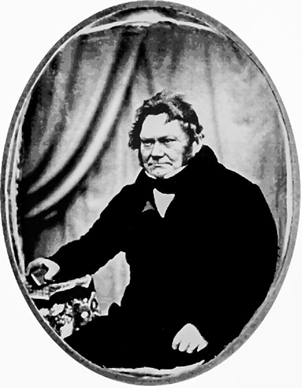 Jöns Jacob Berzelius.